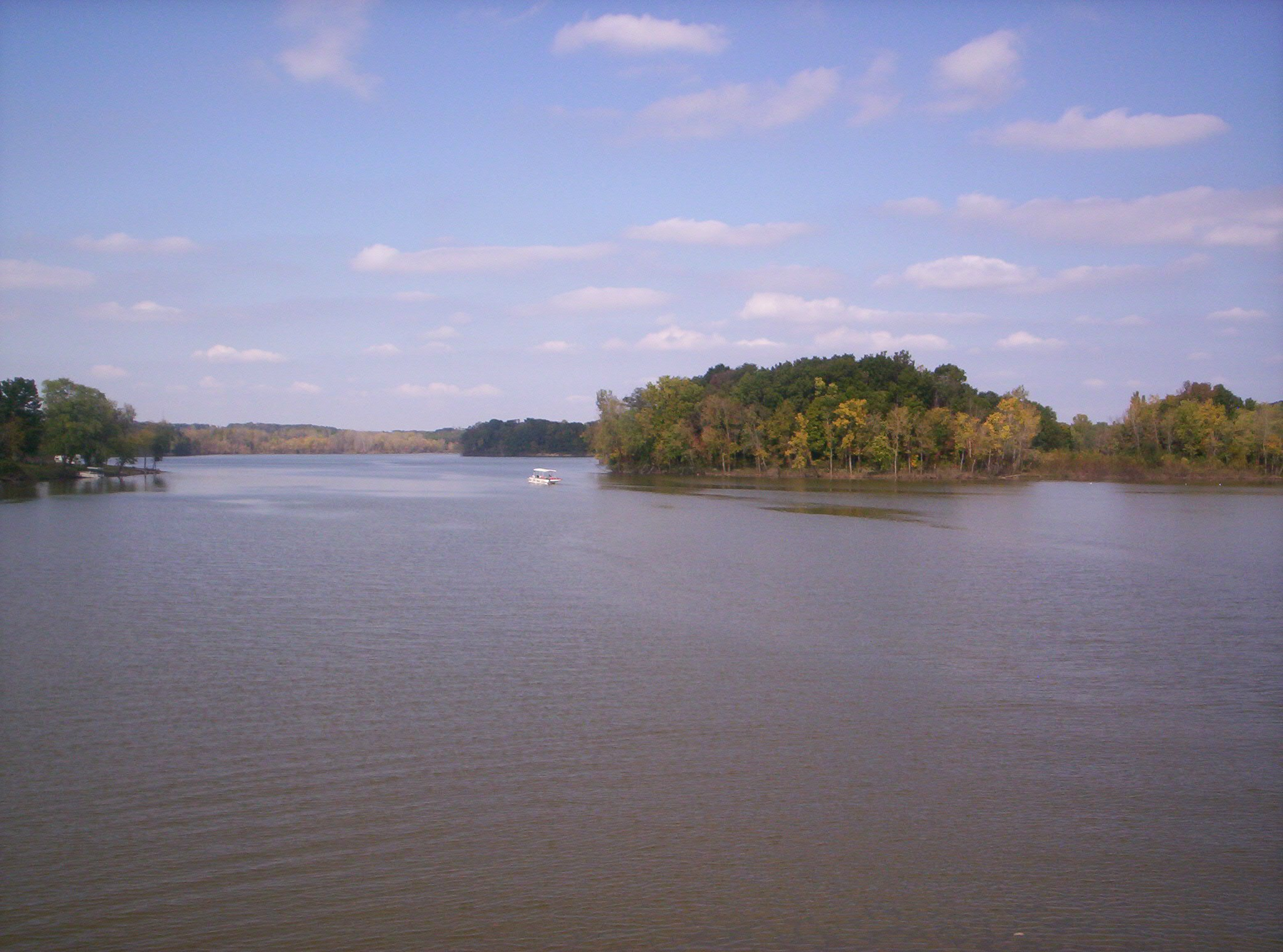 A view of Charles Mill Lake near Mifflin, Ohio was taken from over the Ohio 430 bridge looking northwest. Photo is taken in Ashland County, Ohio, but virtually everything in the photo is in Richland County.